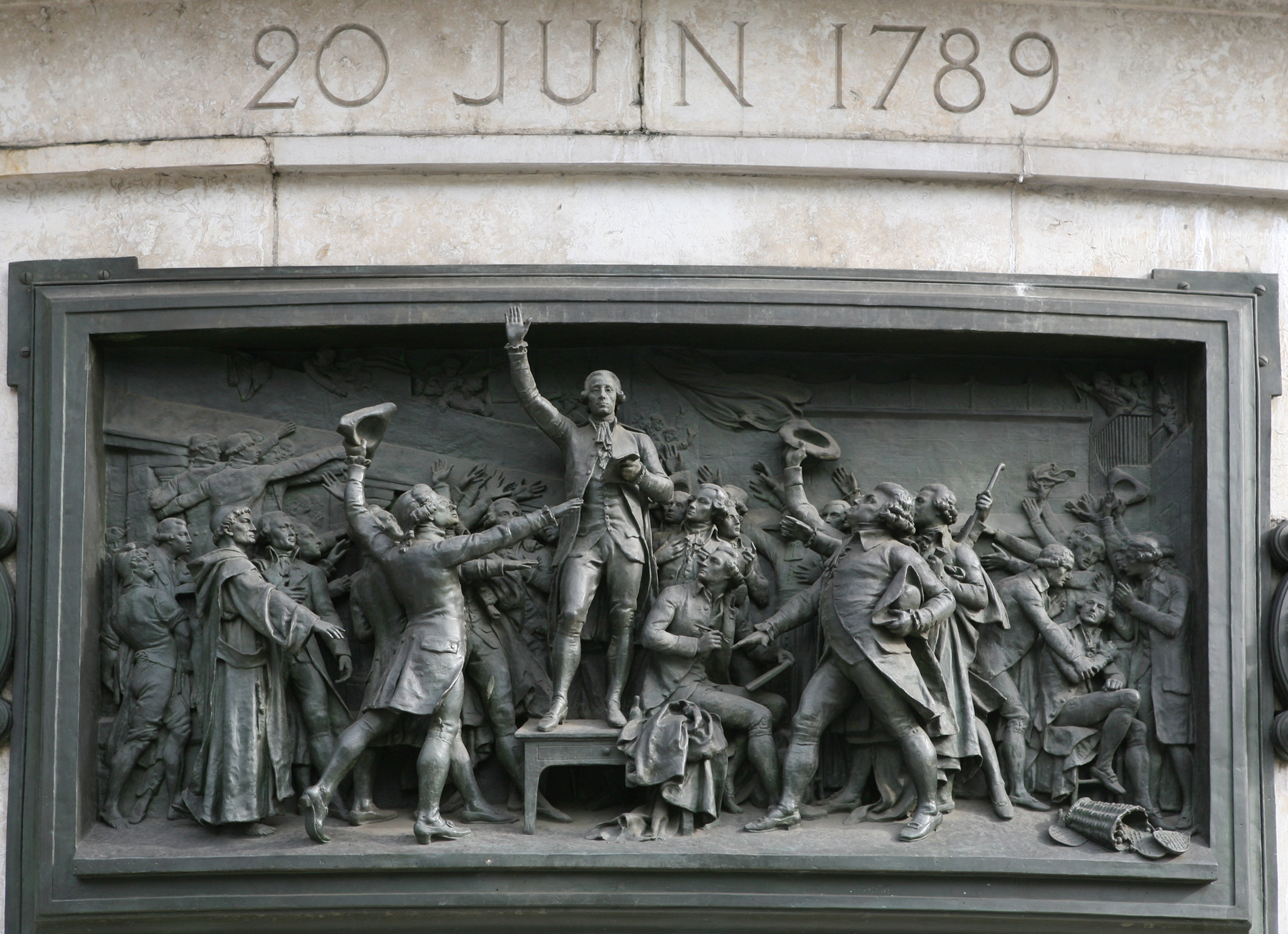 The Oath of the Tennis Court (1789-06-20), high-relief bronze by Léopold Morice, Monument of the Republic, Republic Square, Paris, 1883